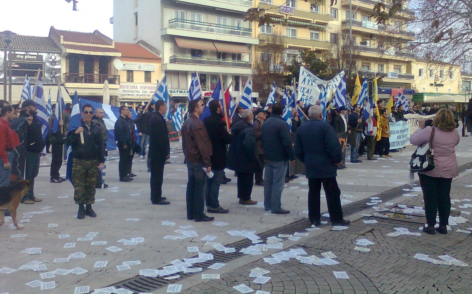 Chrysi Avyi (a Greek Nationalist political organization in Greece) demonstration in Komotini, Greece.